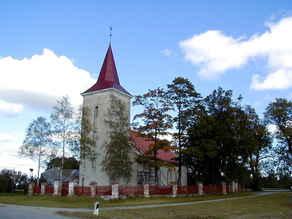 Stende Evangelical Lutheran Church